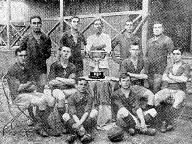 Argentine football team Rosario Central that won the Copa Vila in 1915 and 1916. The line-up was: Moyano; Z. Díaz, Rota; Rigotti, E. Blanco, Perazzo; A. Blanco, A. Woodward, H. Hayes, E. Hayes, Ramírez.